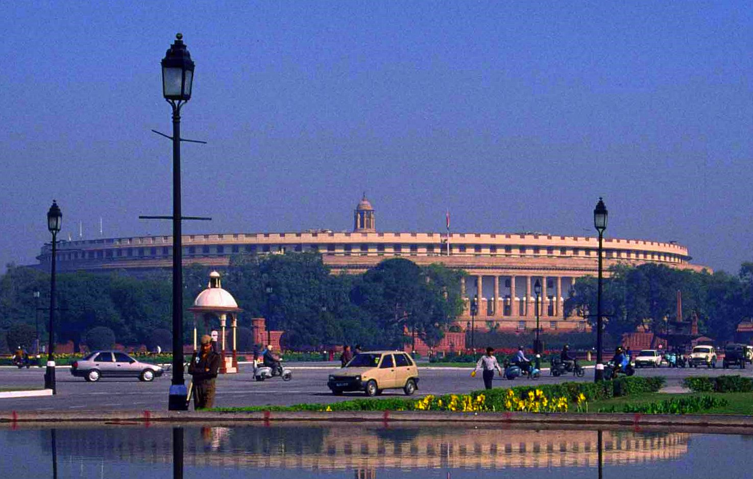 Derivative of work uploaded on wikipedia by User:Ambuj Saxena and User:Indianhillybilly